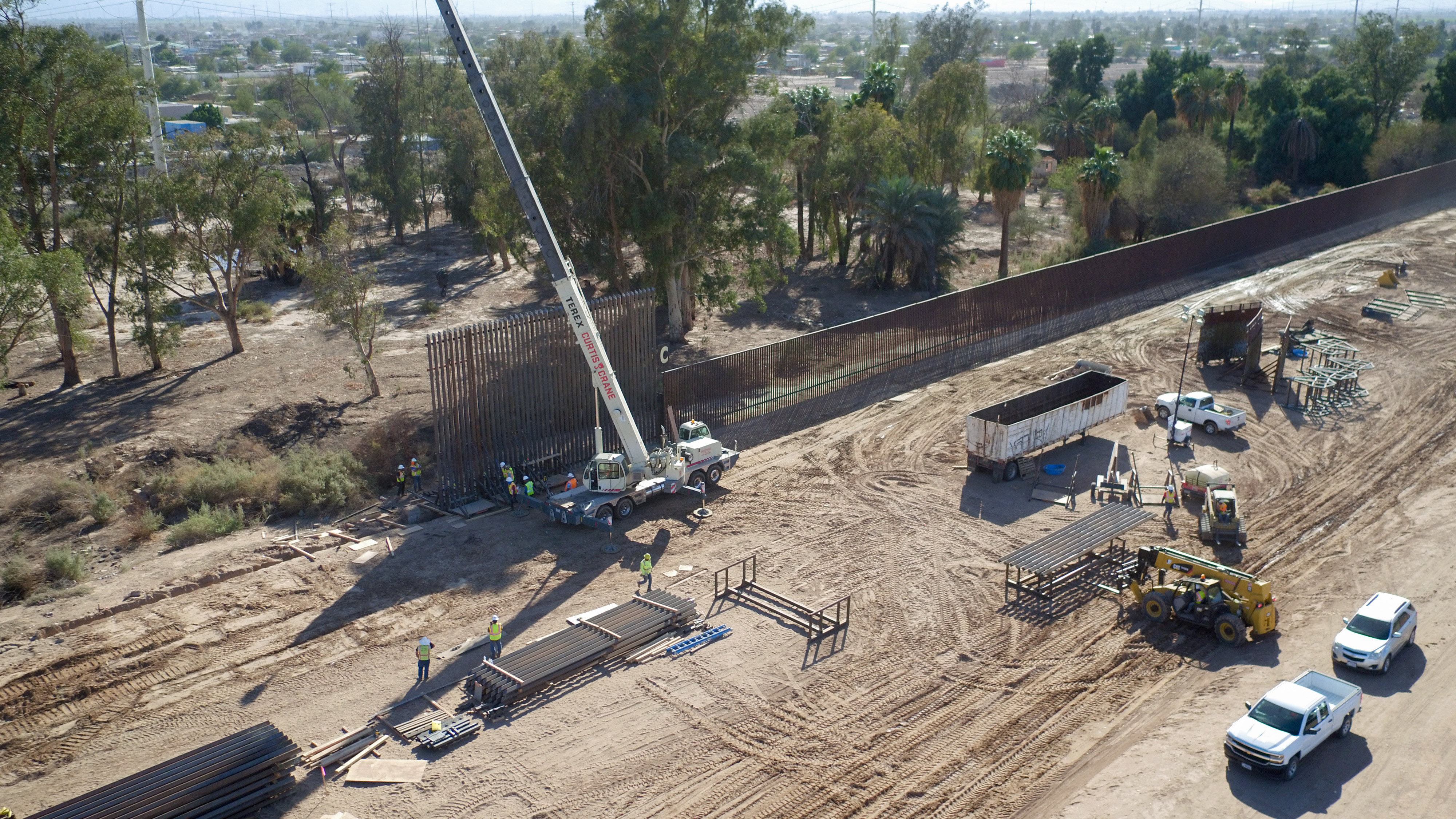 Repair work begins on a 2 1/4 mile section of Border Fence in El Centro Sector near the Calexico West Port of Entry. Photos by Mani Albrecht U.S. Customs and Border Protection Office of Public Affairs Visual Communications Division